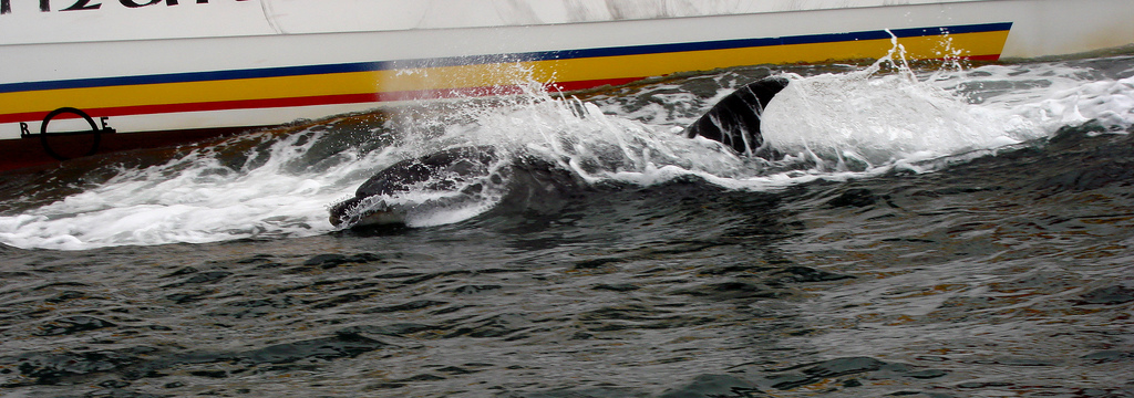 Gaspar, a Bottlenose Dolphin.